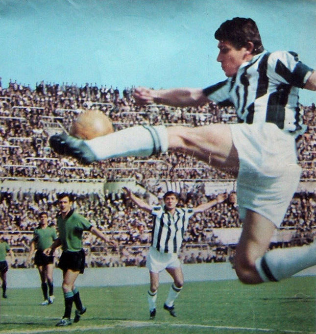 Turin (Italy), Communal Stadium, April 23, 1967. Juventus F.C.'s midfielder Gianfranco Leoncini in action during the home victory versus A.C. Venezia (2-1), Matchday 29 of Italian League 1966–67 Serie A; on background, teammate Giampaolo Menichelli.